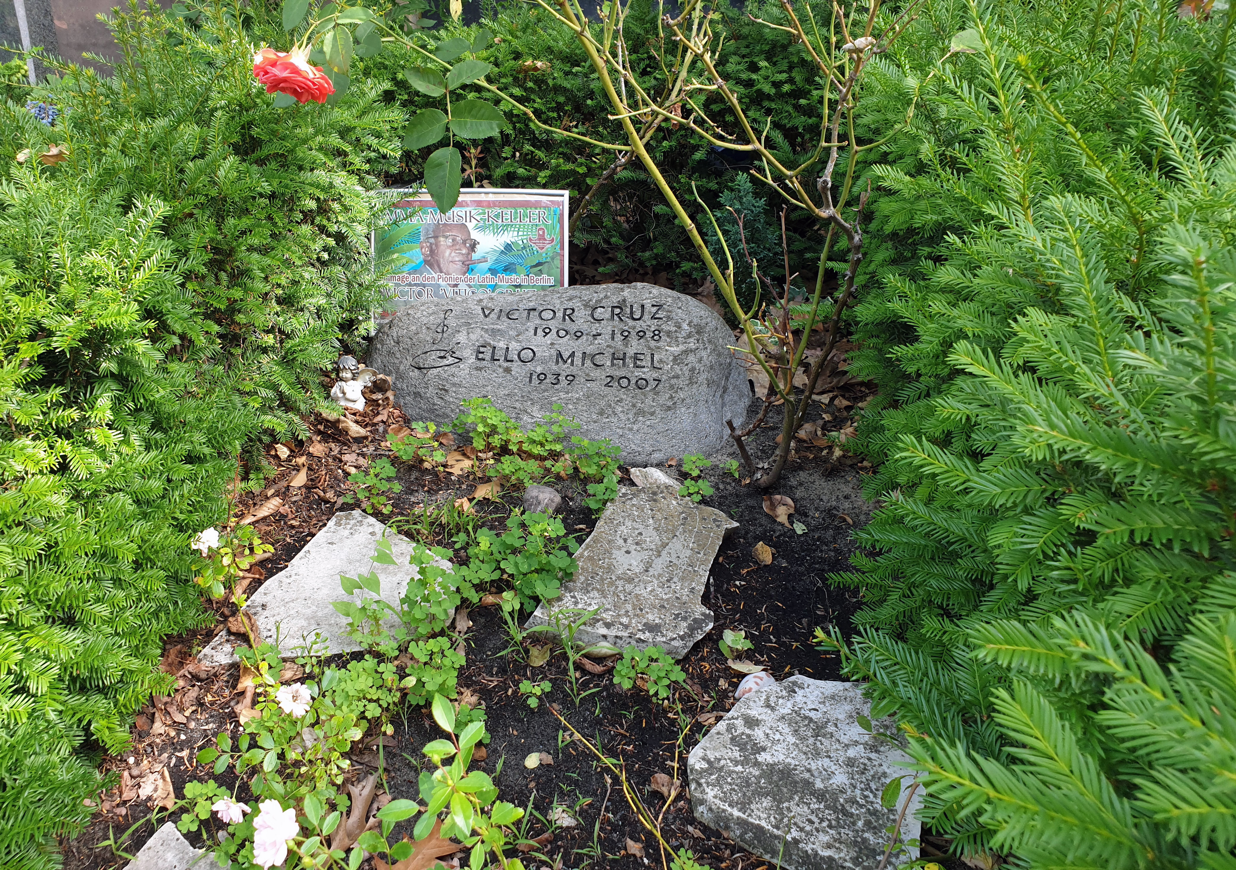 Grave, Víctor Cruz and Ellinor Michel, Bornstedter Straße 11, Berlin-Halensee, Germany